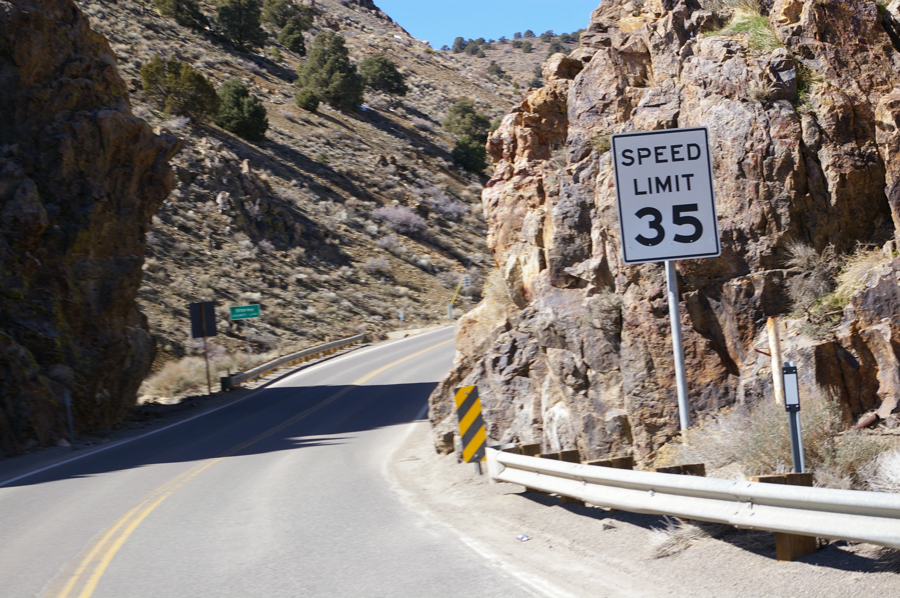 Nevada State Route 342 inside Gold Canyon near Silver City, Nevada